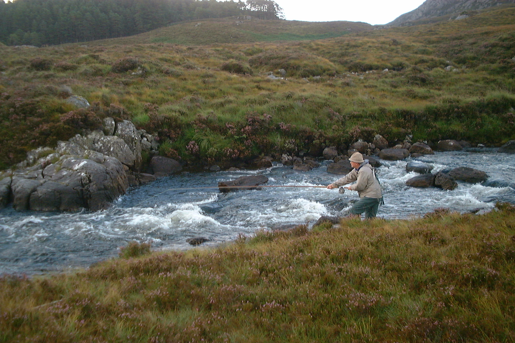 Casting a fly for Atlantic Salmon on the Little Gruinard River